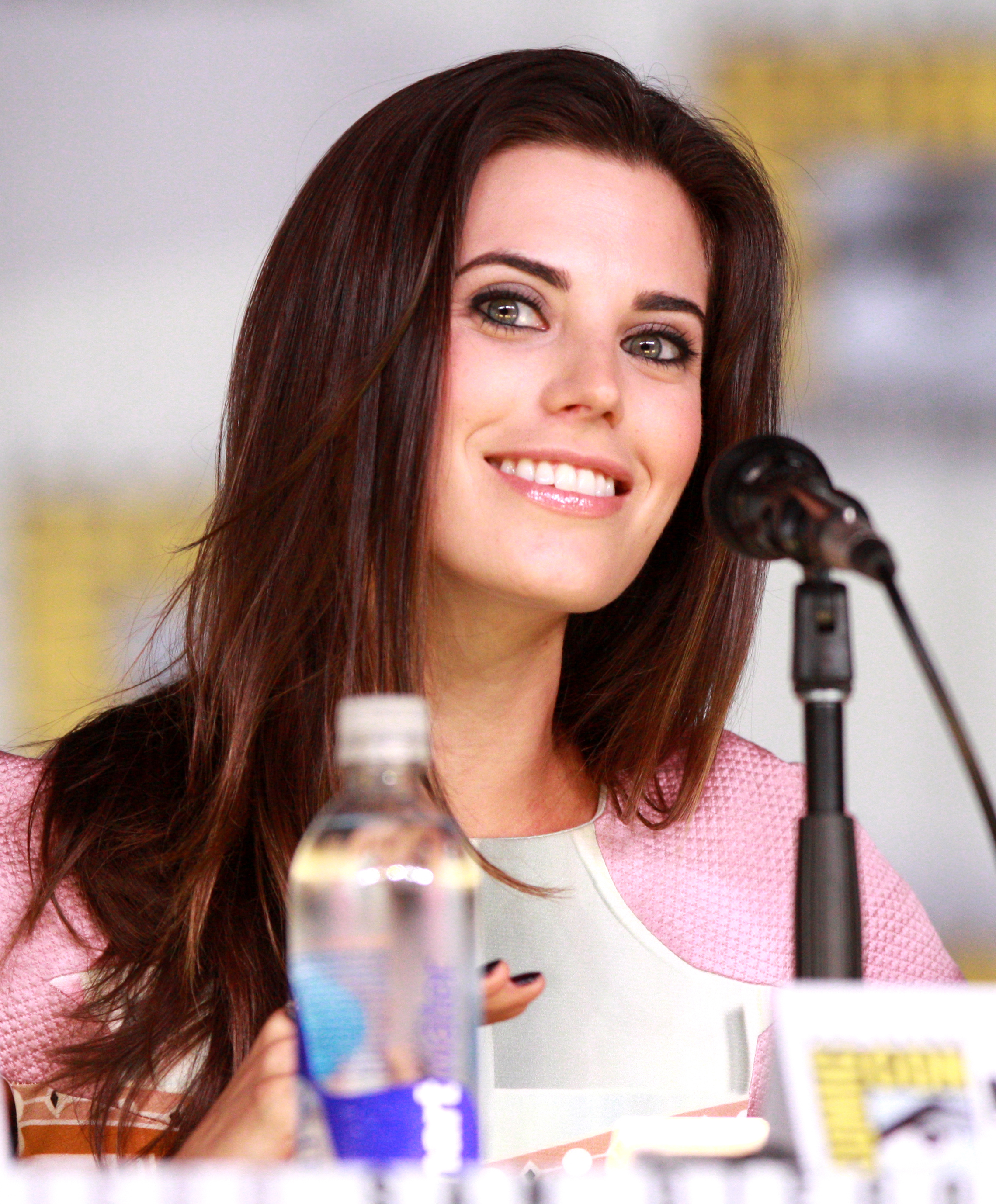 Meghan Ory at the 2013 San Diego Comic Con International in San Diego, California.